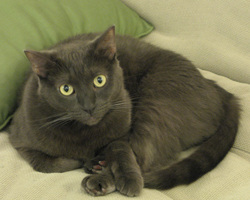 Sable color Bombay cat Rosie